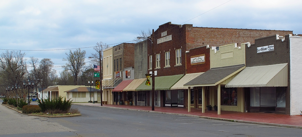 The main street in Ruleville, Mississippi.